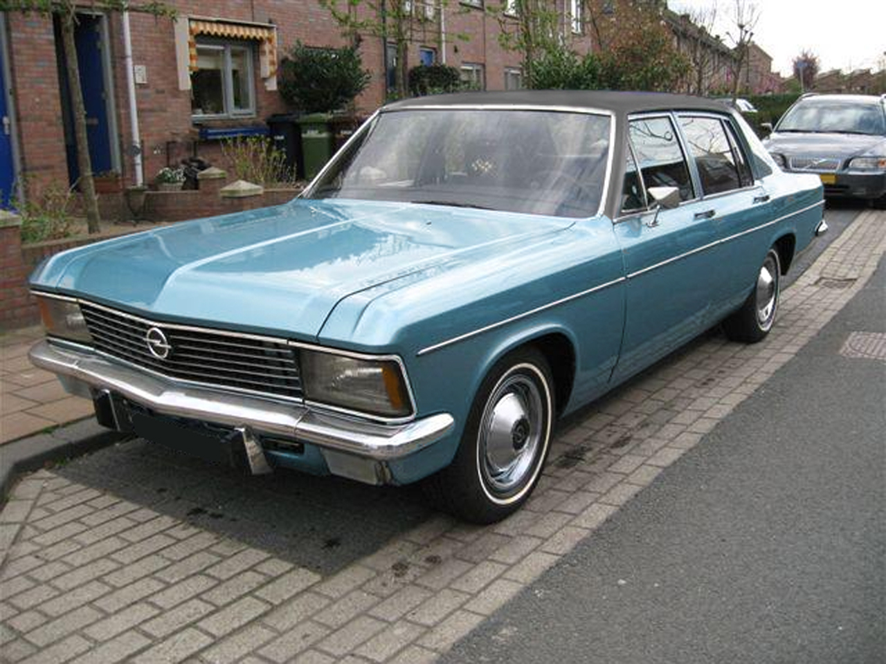 An old Opel